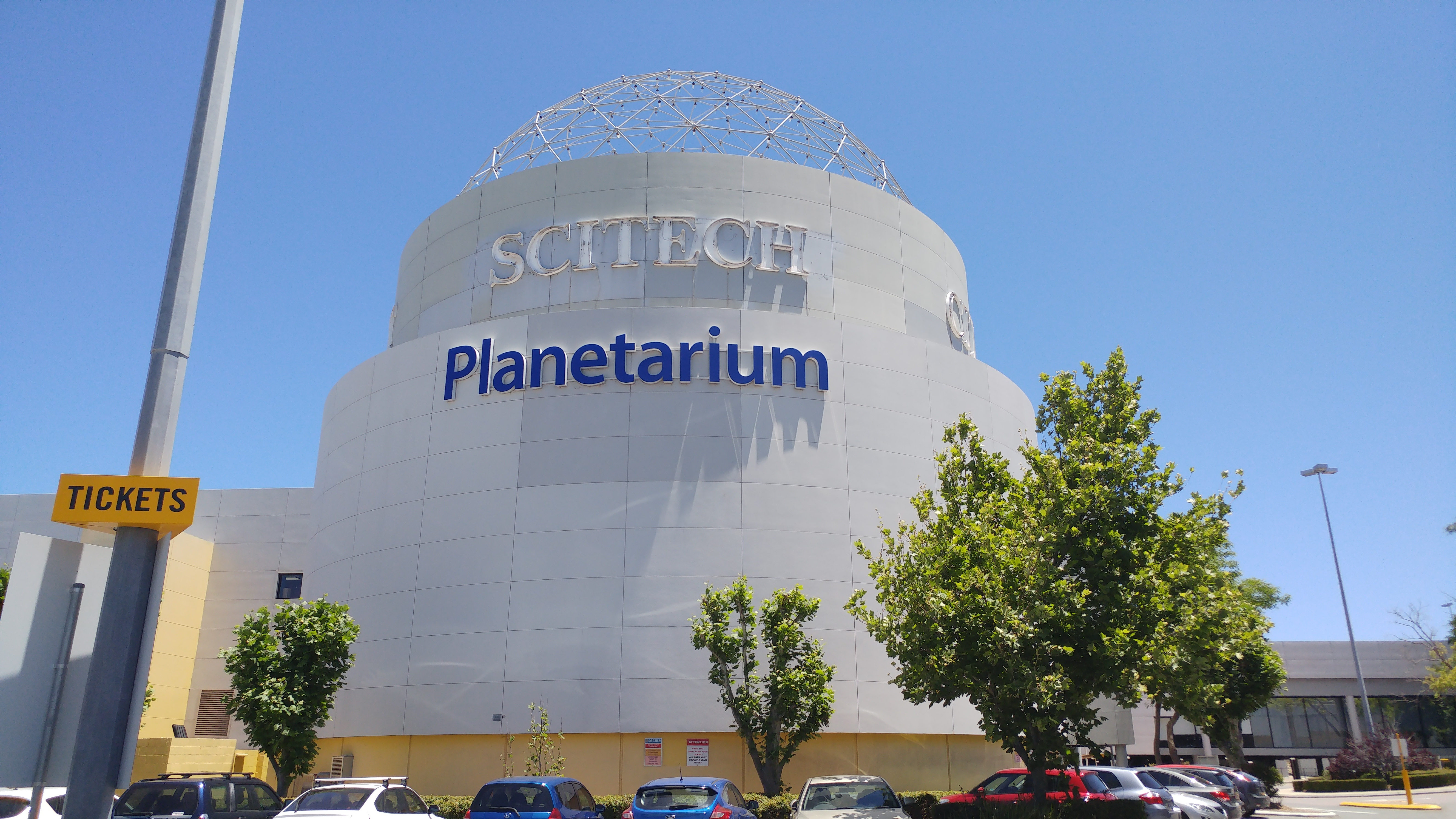 The Planetarium, a major visual point of reference in Western Australia with it's unique features as seen from the car park in November 2016.